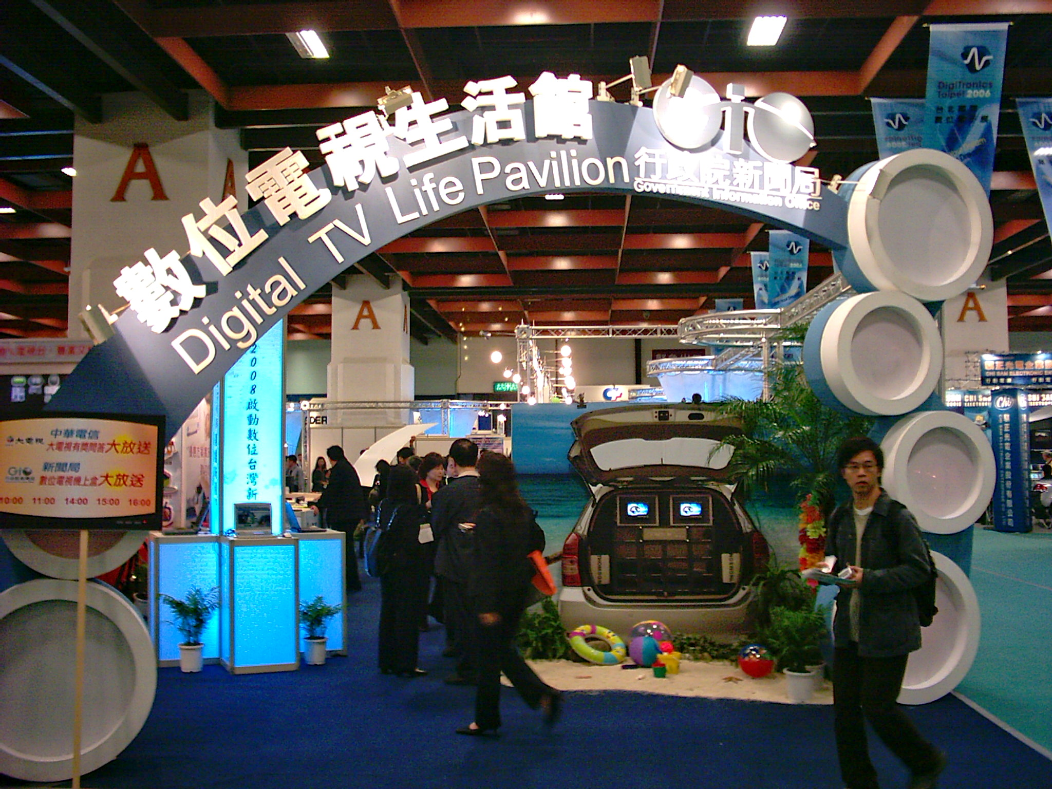 2006 DigiTronics Taipei: Digital TV Life Pavilion by Government Information Office, Executive Yuan.